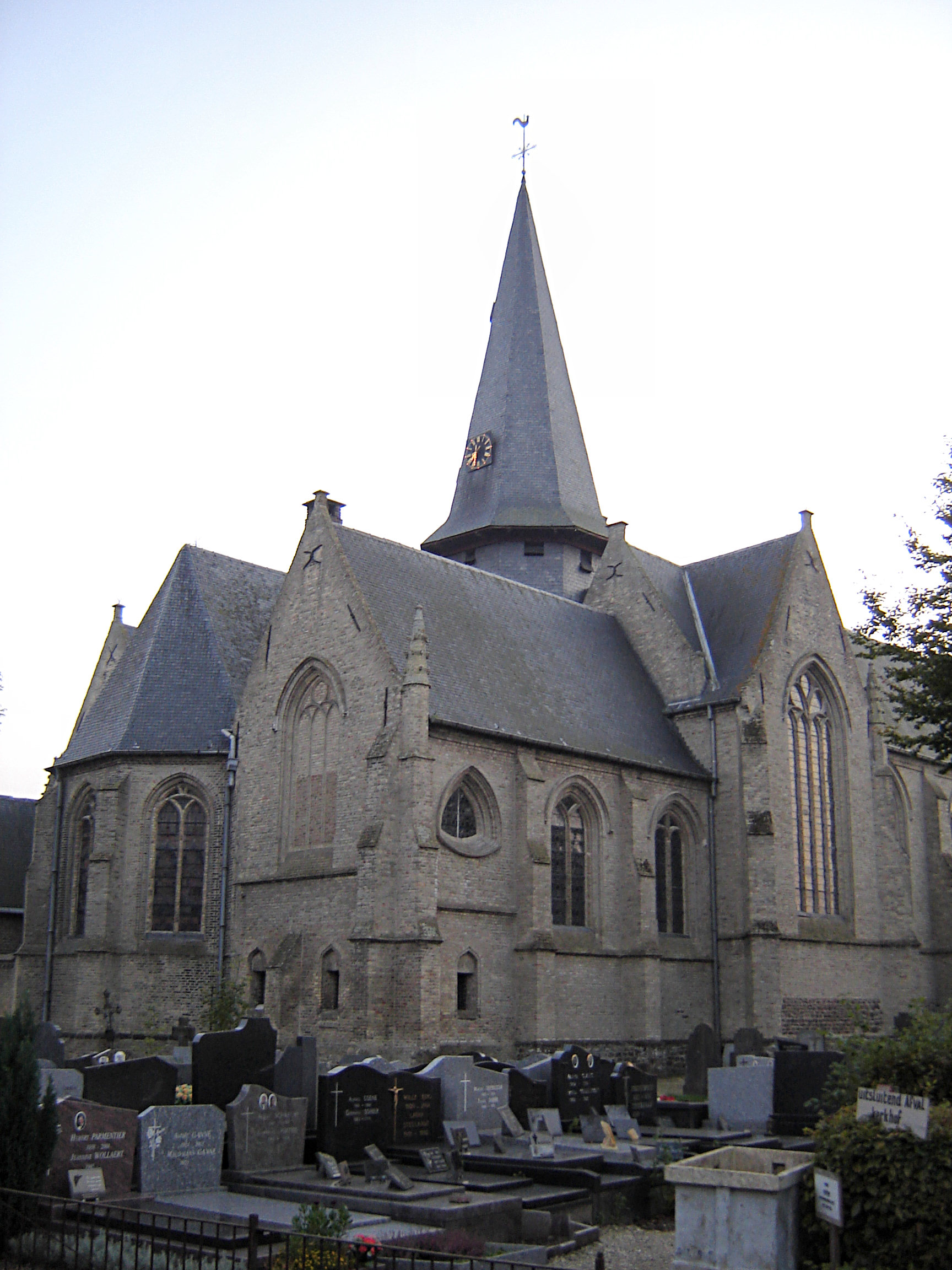 Church of Saint Blaise in Krombeke. Krombeke, Poperinge, West Flanders, Belgium